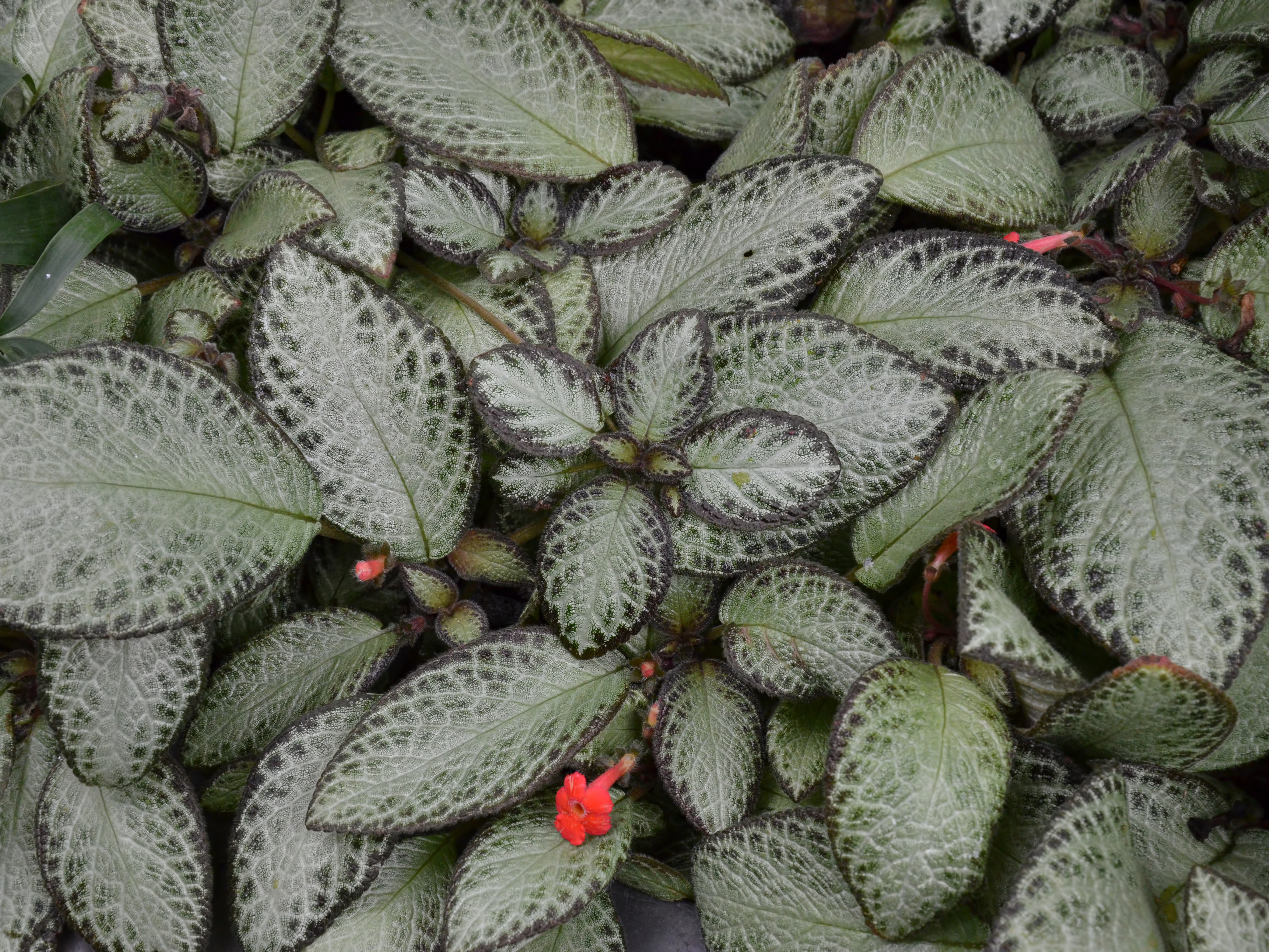 Creeping flame violet at Kew Gardens, London, UK.